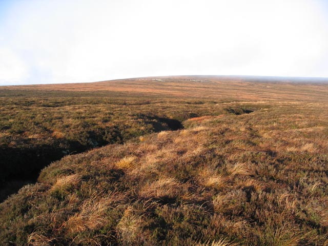 Moorland near Carter Fell